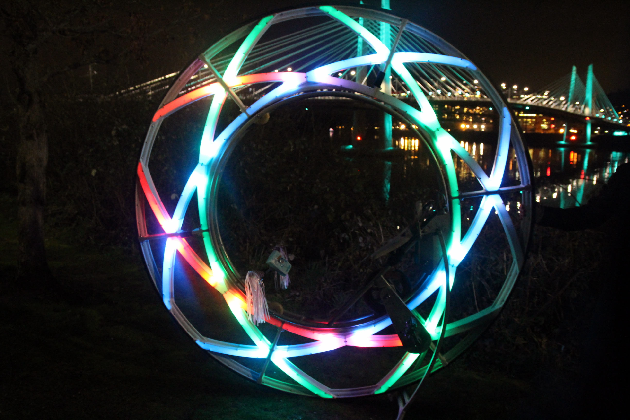 Rotary